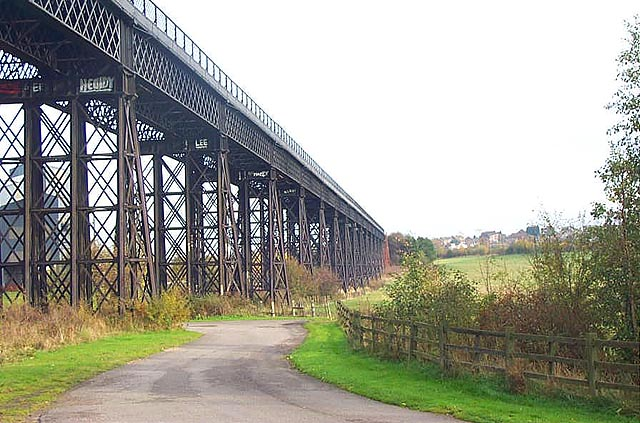 Bennerley Viaduct. The viaduct crosses the River Erewash and carried trains until Dr Beeching's axe fell in the 1960s. The wrought iron viaduct was built in 1879 and is now a listed structure.